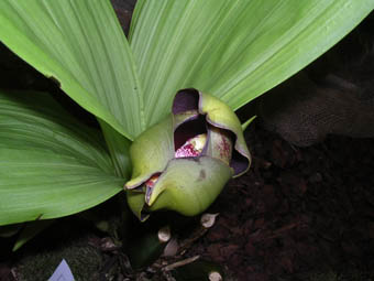 Anguloa sp. - Orchideenwelt at Dresden Messe - 01.04.2006 - by Diogo Correia